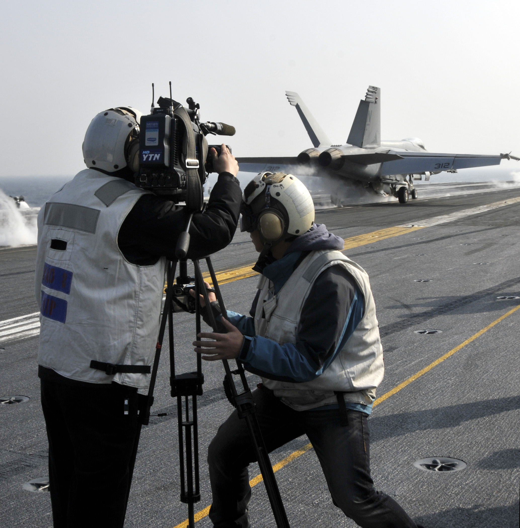 WATERS WEST OF THE KOREAN PENINSULA (Nov. 29, 2010) Reporters from Korean news media capture footage of an F/A-18E Super Hornet assigned to the Eagles of Strike Fighter Squadron (VFA) 115 aboard the aircraft carrier USS George Washington (CVN 73). George Washington is in the waters west of the Korean peninsula conducting a training exercise with the Republic of Korea Navy. (U.S. Navy photo by Mass Communication Specialist 3rd Class David A. Cox/Released)